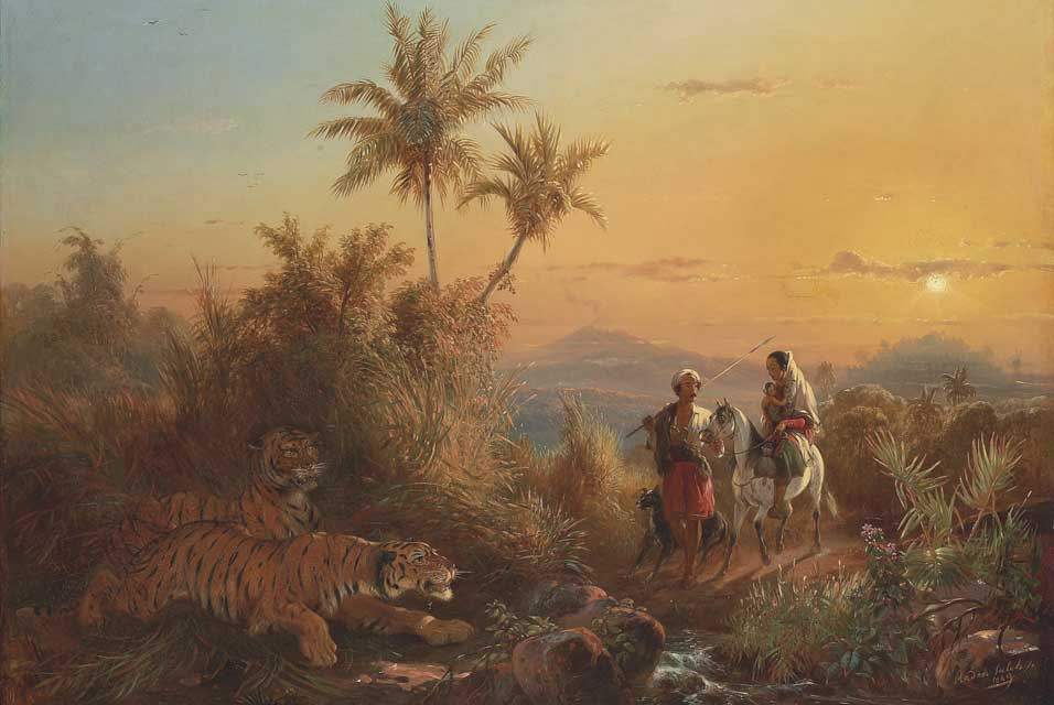 "Javanese Landscape, with Tigers Listening to the Sound of a Travelling Group" was completed by Raden Saleh in Dresden, the cultural centre of Saxony, and presented to his patron and friend His Highness Ernest II, Duke of Saxe- Coburg and Gotha, in 1849. The painting was in the family for many years as it was inherited by the second son, grandson and great-grandson of Queen Victoria and Prince Albert.